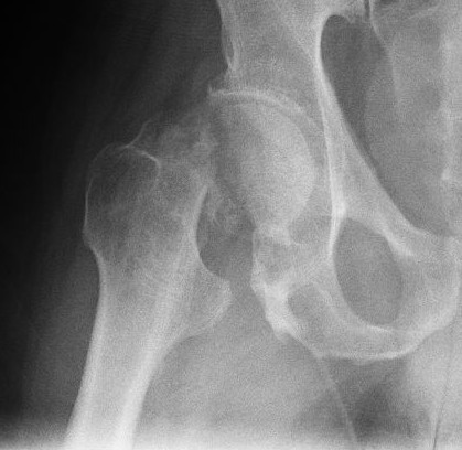 Hip-Joint, fracture of the collum femoris. Lefthand from the head is the rather large dislocation and fracture-zone to be seen. Quelle: eigene Aufnahme Autor: User:Scuba-limp